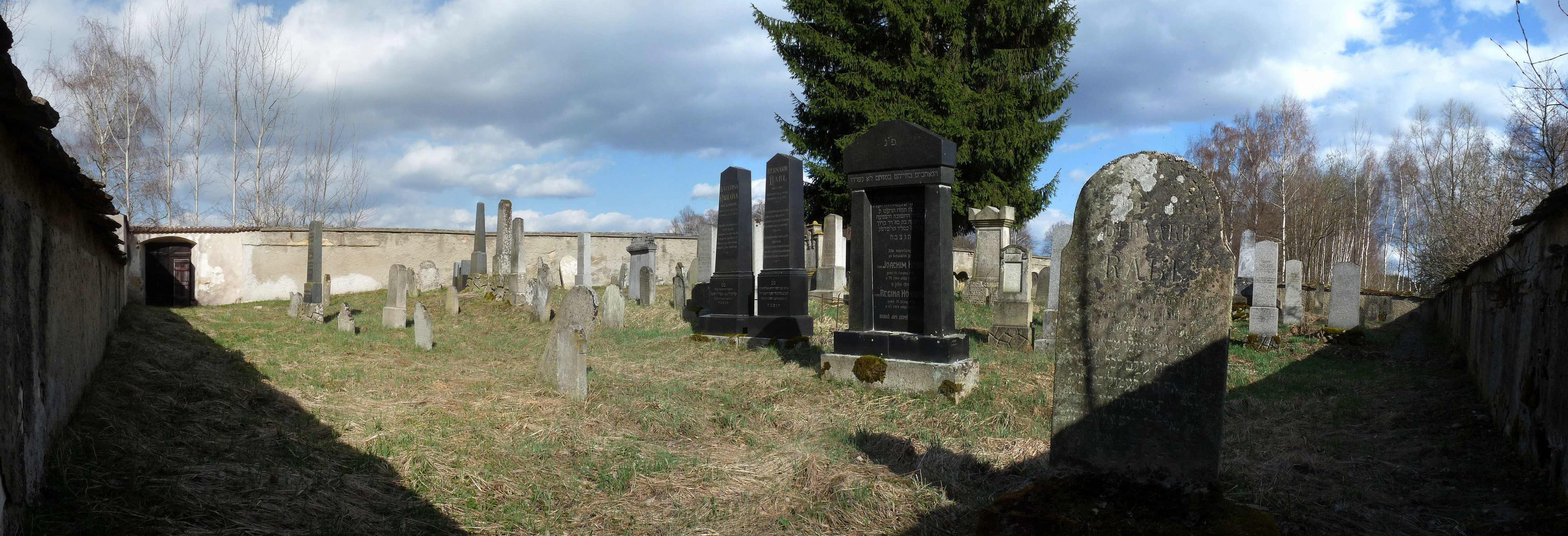 Jewish cemetery at the town of Kardašova Řečice, Jindřichův Hradec District, Czech Republic - panorama